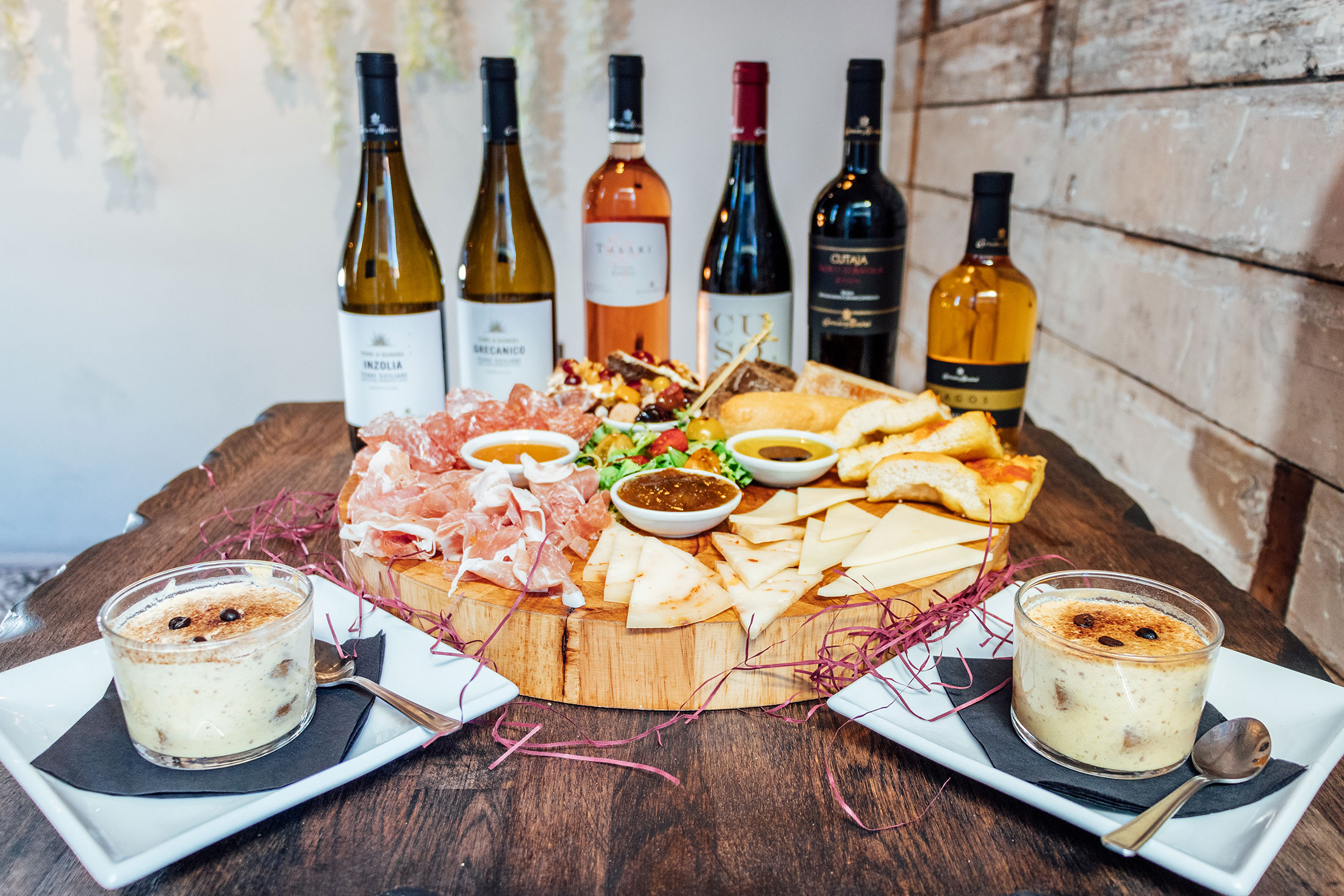 Wine Tasting